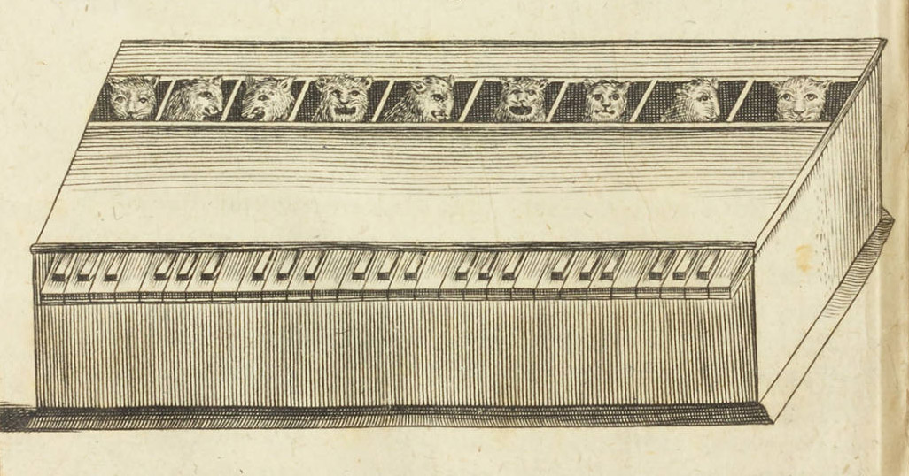 Illustration from Caspar Schott's Magia universalis naturae et artis.